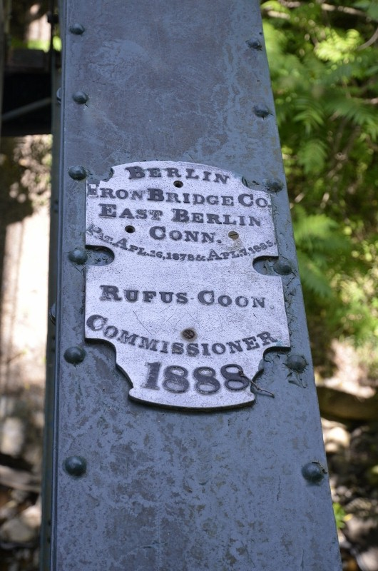 Rhule Road Lenticular Truss Bridge